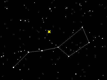 The location of the Hubble Deep Field. Plotted using Your Sky at fourmilab.ch [1].